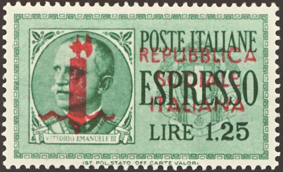 Stamp of the Italian Social Republic; 1944; express stamp with the effigy of King Victor Emmanuel III of Italy of the issue of 1932 with red overprint; stamp drawing with the frontal effigy in oval with look to left in the left half of the stamp; right half with central inscription "ESPRESSO" in capital letters over coat of arms of the Fascist Italy; mint stamp with complet gumming Stamp: Michel: No. 648 (= No. 414 from 1932 with overprint); Yvert & Tellier: IT-RSI, No. E3; Scott: IT-RSI, No. E1 Color: green with red overprint Watermark: Italy No. 1 (crown) Nominal value: 1.25 Lire (₤) Postage validity: from 24 January 1944 until 25 April 1945 Stamp picture size (printed area without below names line): 37.0 x 21.0 mm